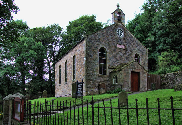 Low Row Chapel at Low Row in Swaledale.